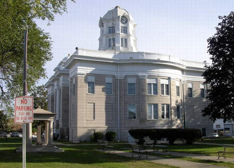 Another view of the Scotland County, Missouri courthouse in Memhis, Missouri as it appeared in September, 2012.